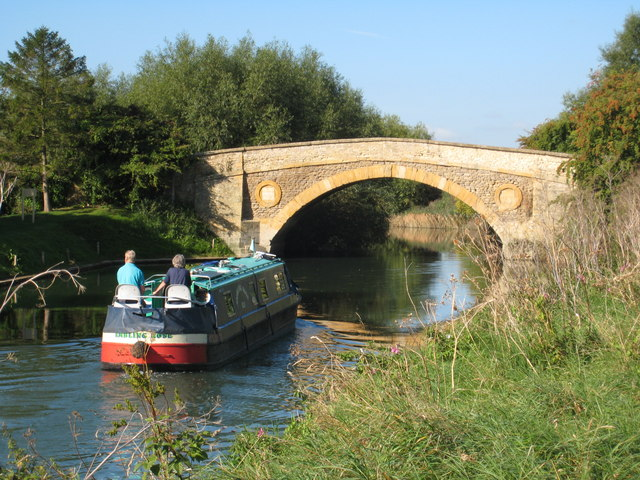 Tadpole Bridge on the Thames nr Buckland from downstream